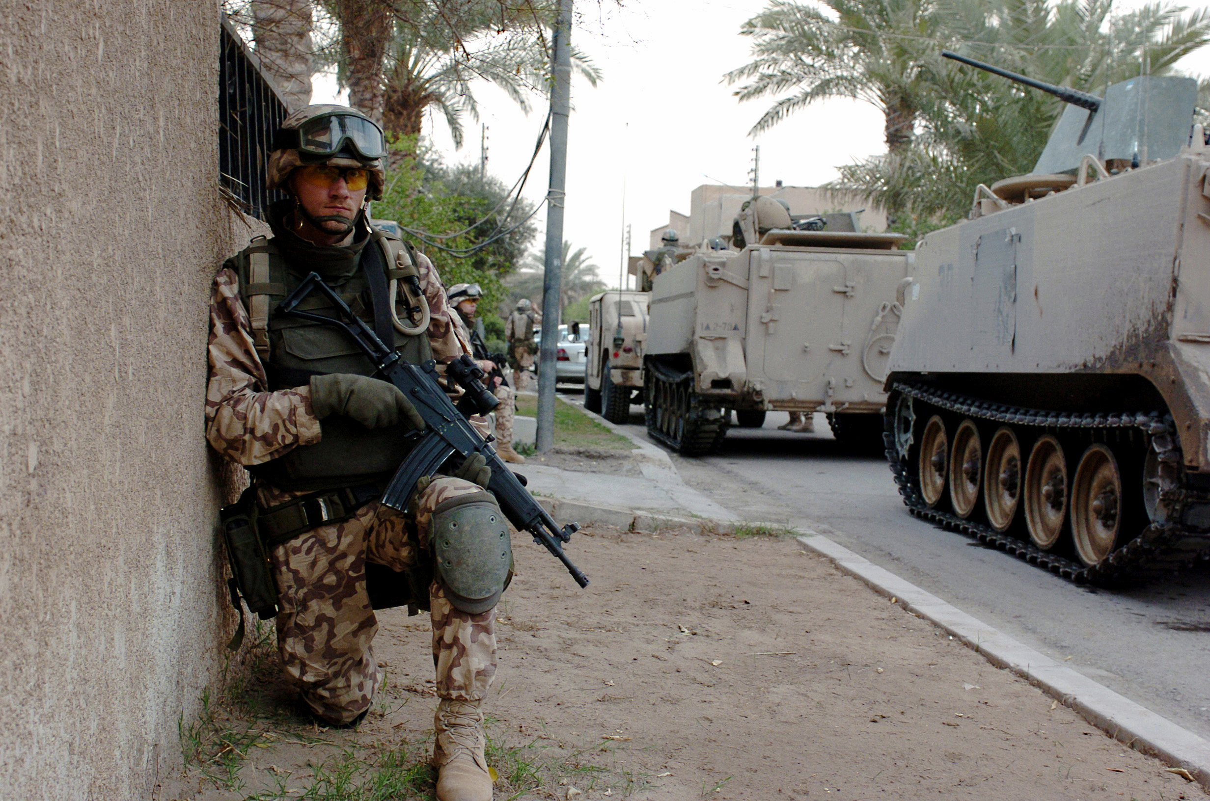 Estonian soldier with Galil SAR rifle. Estonian Army Corporal (CPL) Roman Metsatalu, assigned to the Scouts Battalion, Estonian Defense Forces, Estonian Peacekeeping Center, holds his position armed with a Vektor R6 5.56mm compact assault rifle while awaiting orders to move out on a foot patrol in Western Baghdad, Iraq. Estonian Army Soldiers are working with US Army (USA) Soldiers from 10th Mountain Division, as part of the Multi-National Corps to secure a 15-kilometer section of road in Western Baghdad, during Operation IRAQI FREEDOM.